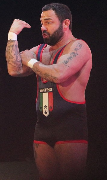 Santino Marella on Raw in April 2014